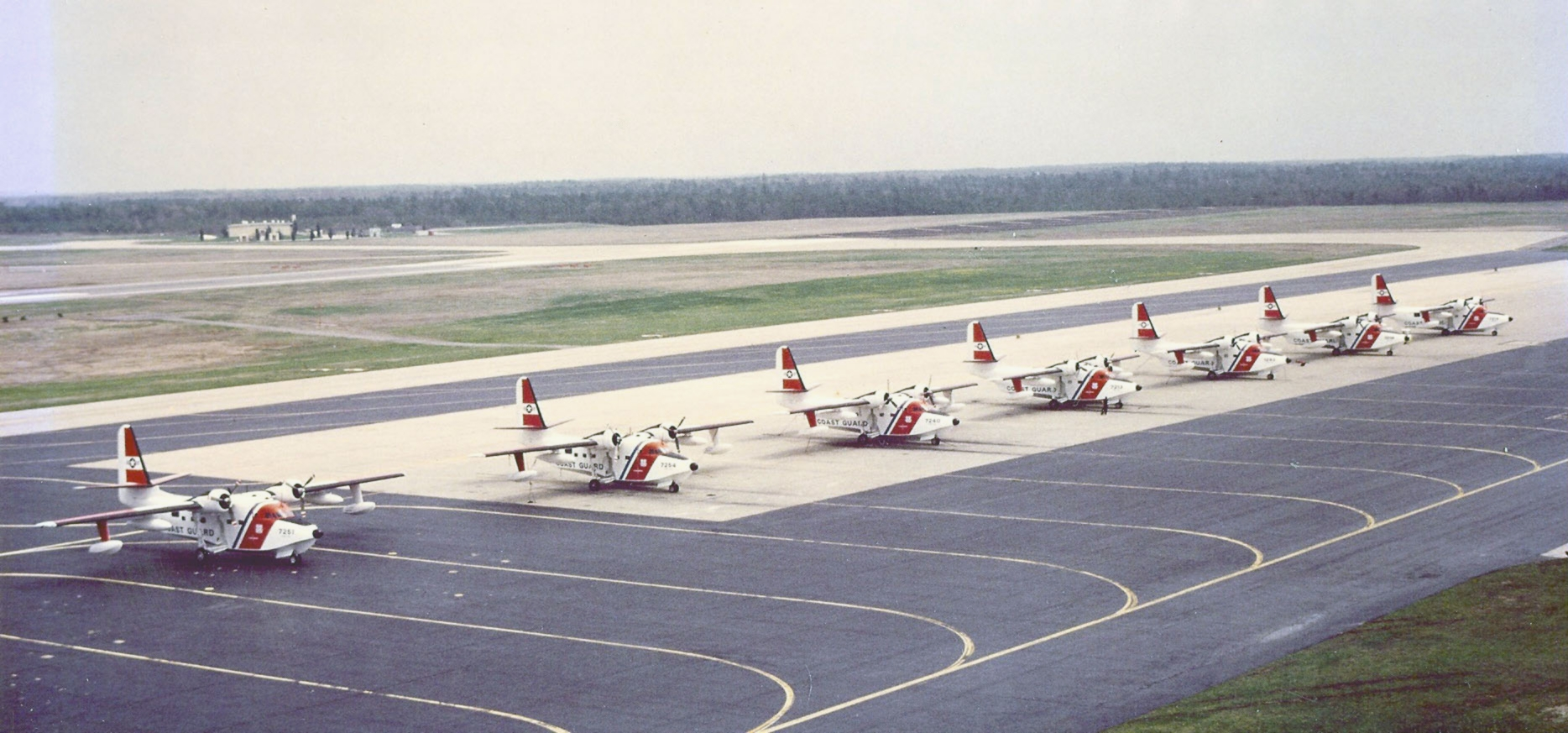 Seven U.S. Coast Guard Grumman HU-16E Albatross amphibians (USAF s/n 51-7251, 51-7254, 51-7240, 51-7213, 51-7214, and two unknown) at Otis Air Force Base, Massachusetts (USA). The USCG operated 91 HU-16 between May 1951 and March 1983, 37 of which were former USAF aircraft. The Albatrosses flew for over 500,000 hours while in service with the Coast Guard. The base's mole hole can be see in the background.